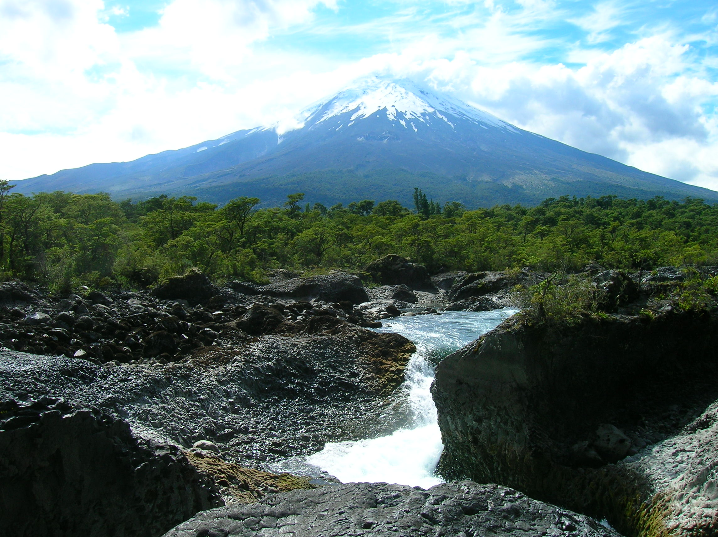 I, Hamza, took this photo myself. Volcán Osorno in all its glory, from Saltos de Petrohue.